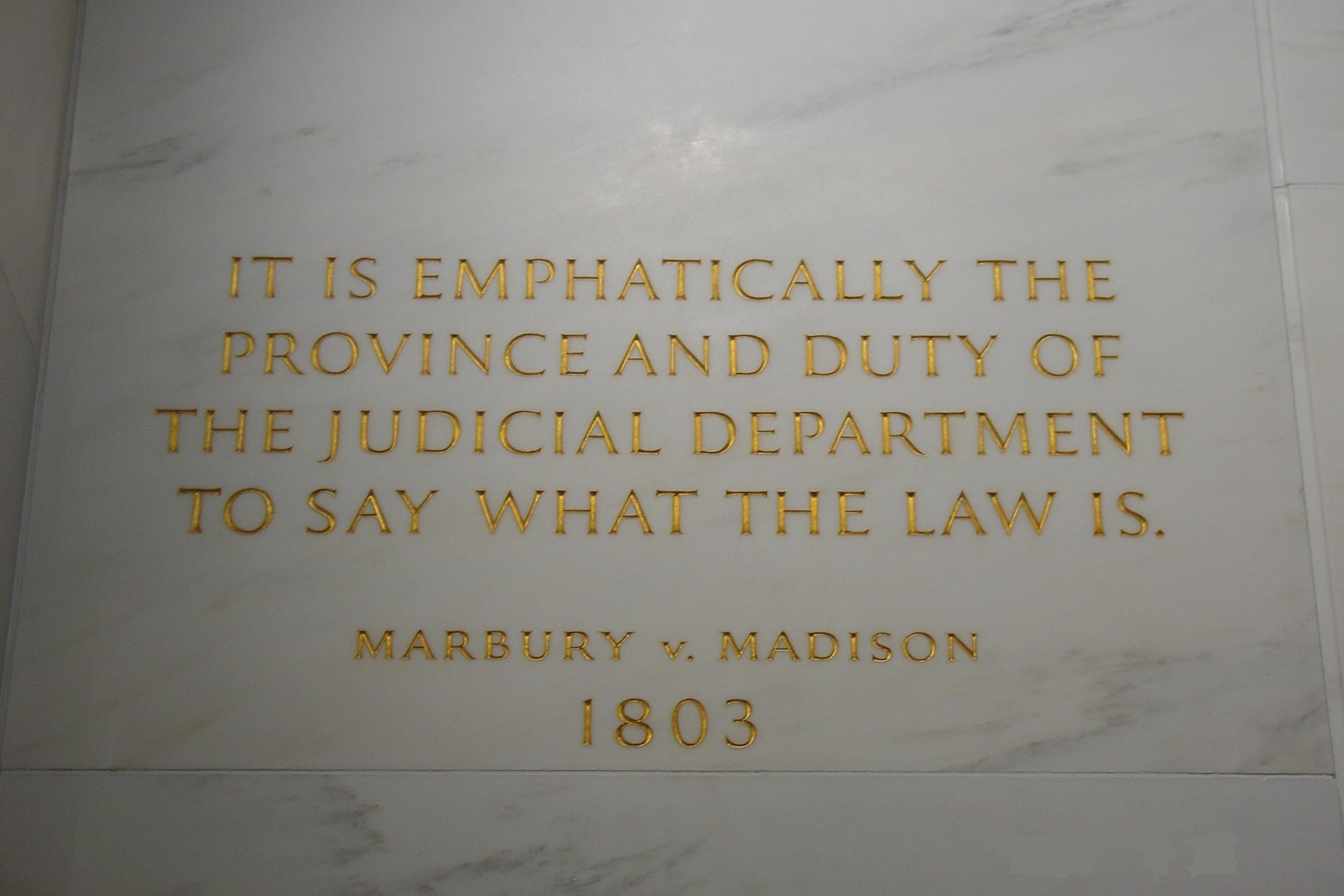 Inscription on the wall of the United States Supreme Court Building from Marbury v. Madison, in which Chief Justice John Marshall outlined the concept of judicial review. “ IT IS EMPHATICALLY THE PROVINCE AND DUTY OF THE JUDICIAL DEPARTMENT TO SAY WHAT THE LAW IS. MARBURY v. MADISON 1803 ”